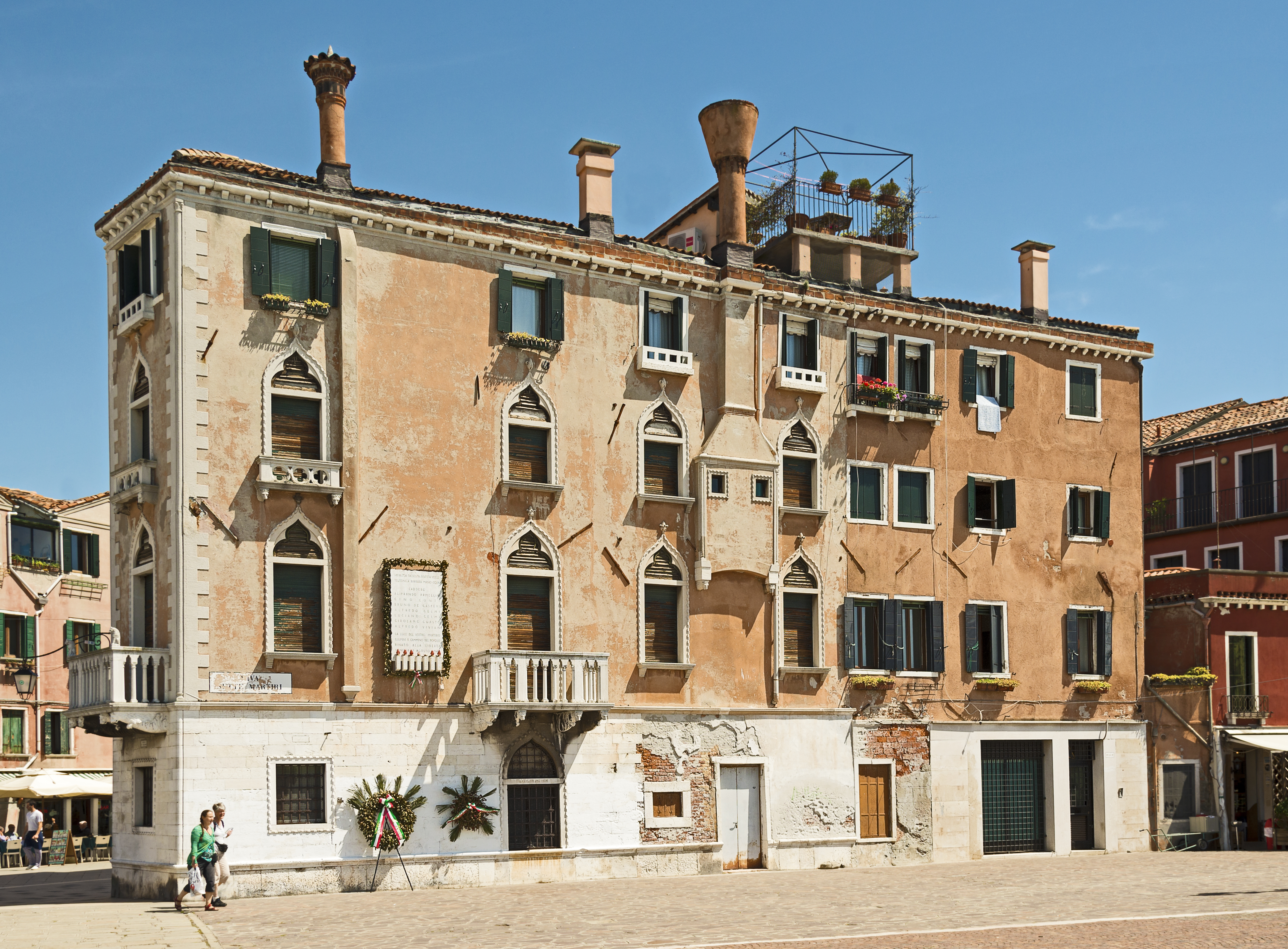 John Cabot house in Venice. Facade, Riva dei sette martiri